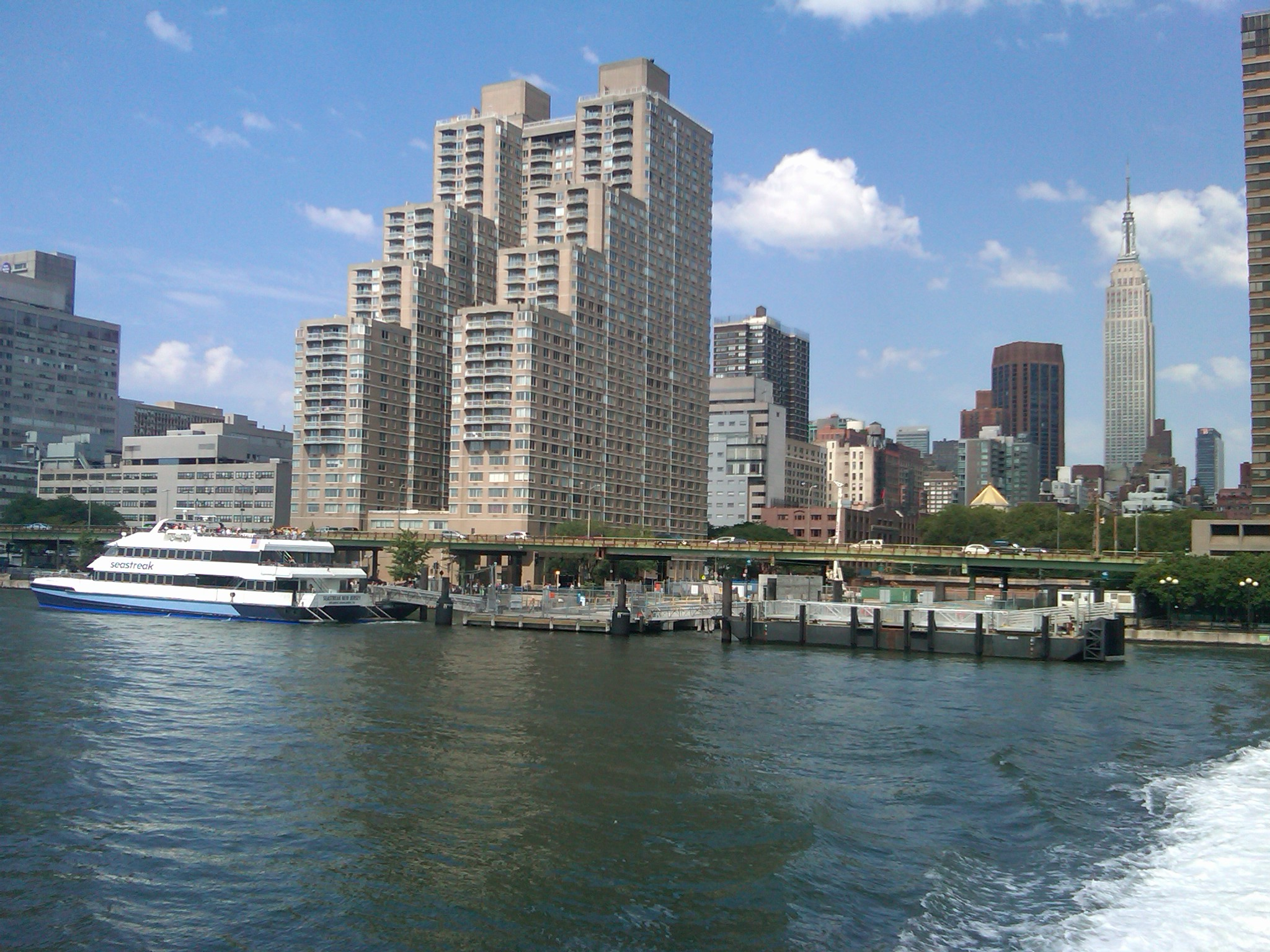 View of the East 34th Street Ferry Landing and Rivergate Apartments from the East River Ferry